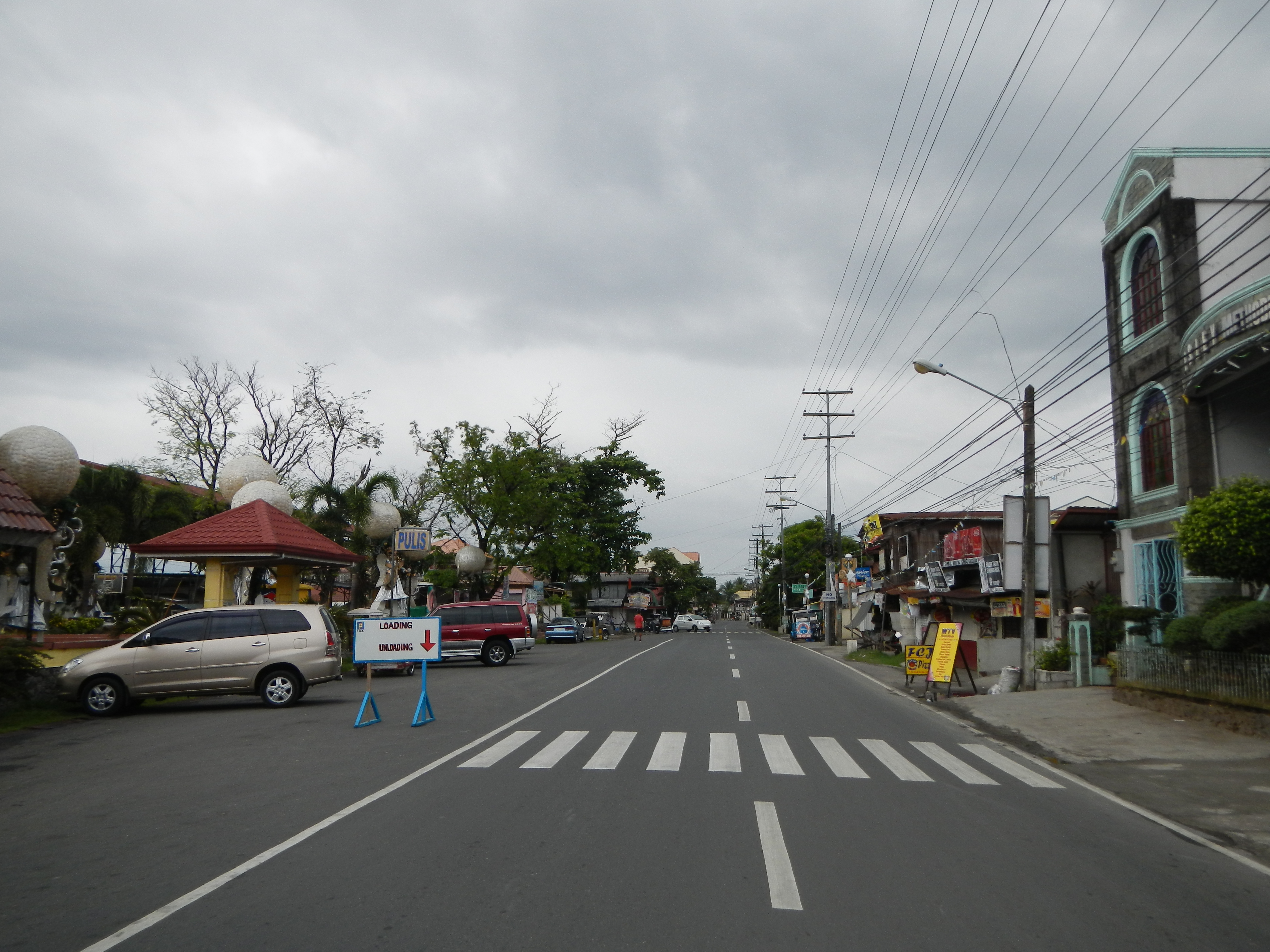 Samal, Bataan[1][2]Eastern side of Bataan, Samal is bounded by the municipalities of Orani, Abucay, Mt. Natib and Manila Bay. Its total population is 45,677 with main products: palay, corn, vegetable, fruits, rootcrops, coffee and cutflowers, livestock, poultry and aquatic resources such as shellfish, crabs, prawns, shrimps and different species of fish. Coordinates: 14°46'3"N 120°29'8"E[3][4][5]